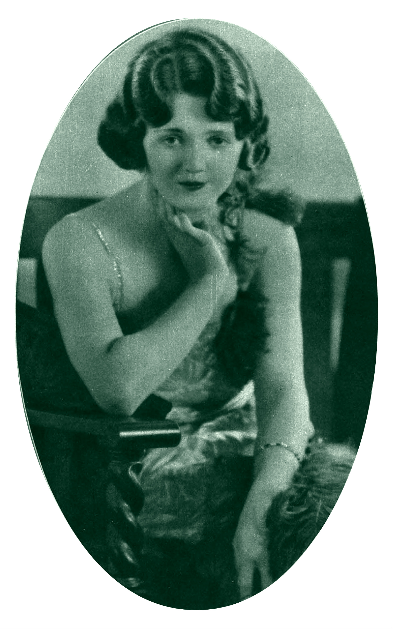 Portrait of Doris May by Melbourne Spurr